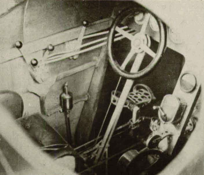 Heinkel HD39 photos from NACA Aircraft Circular No.13